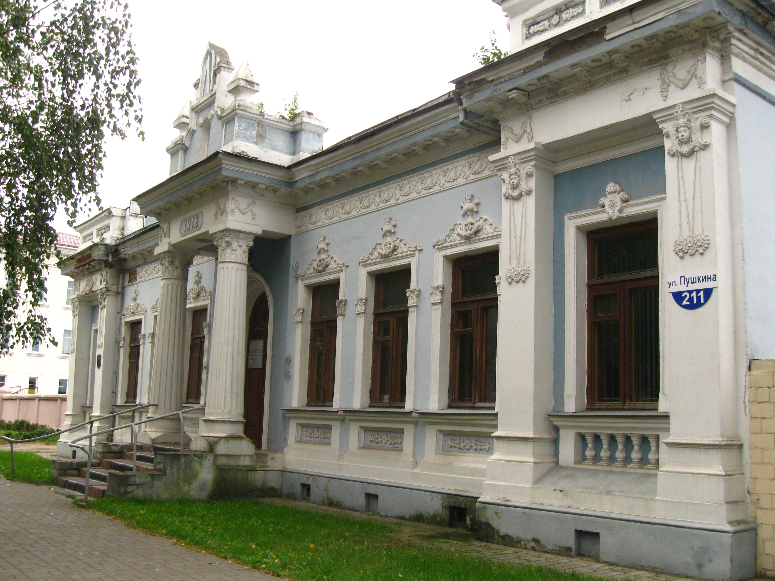 Babruysk, House 1912. St. Pushkina, 211. This is a photo of Belarusian heritage monument. Reference number: 513Г000066 ( WLM)